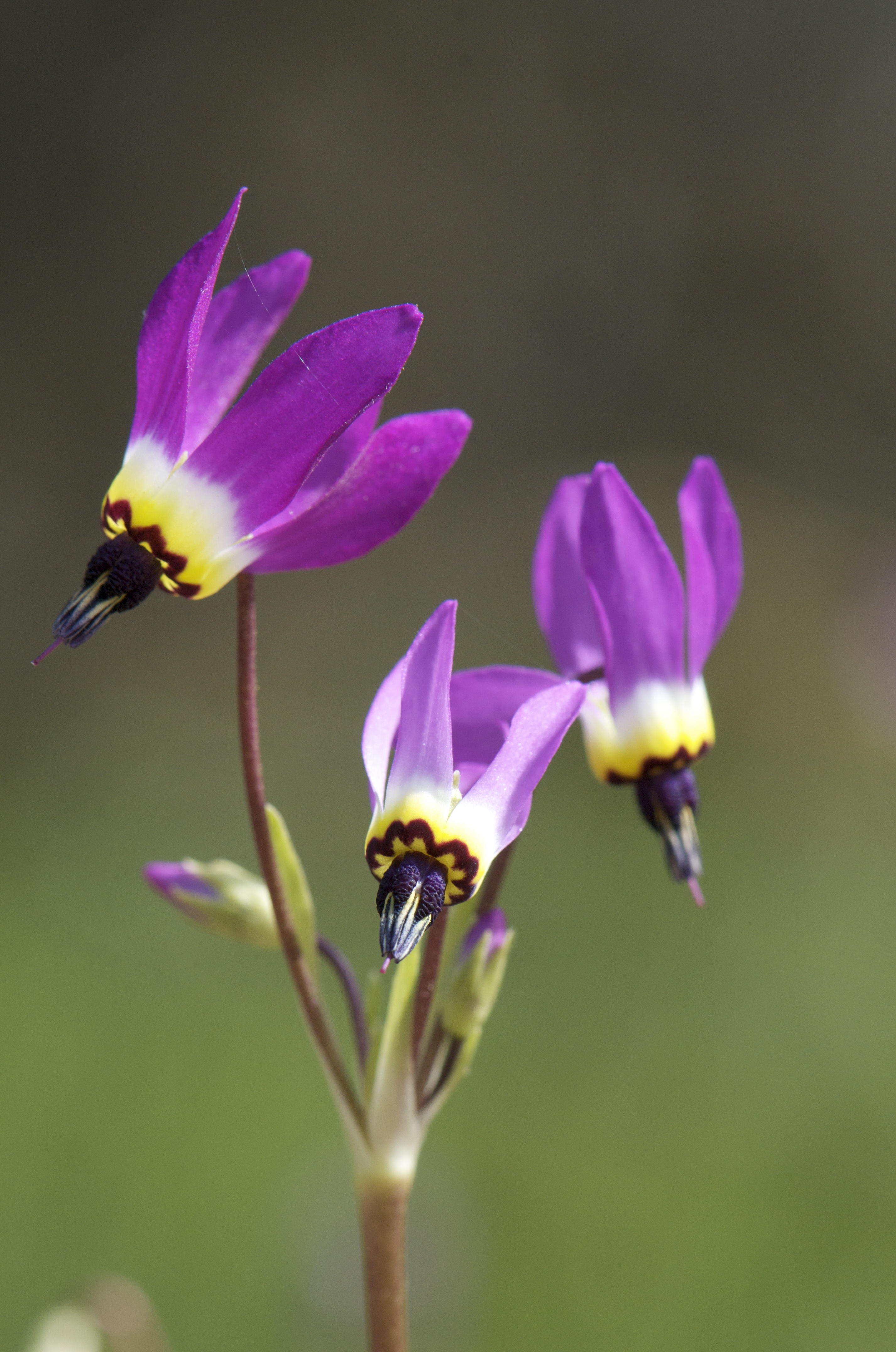 Dodecatheon clevelandii